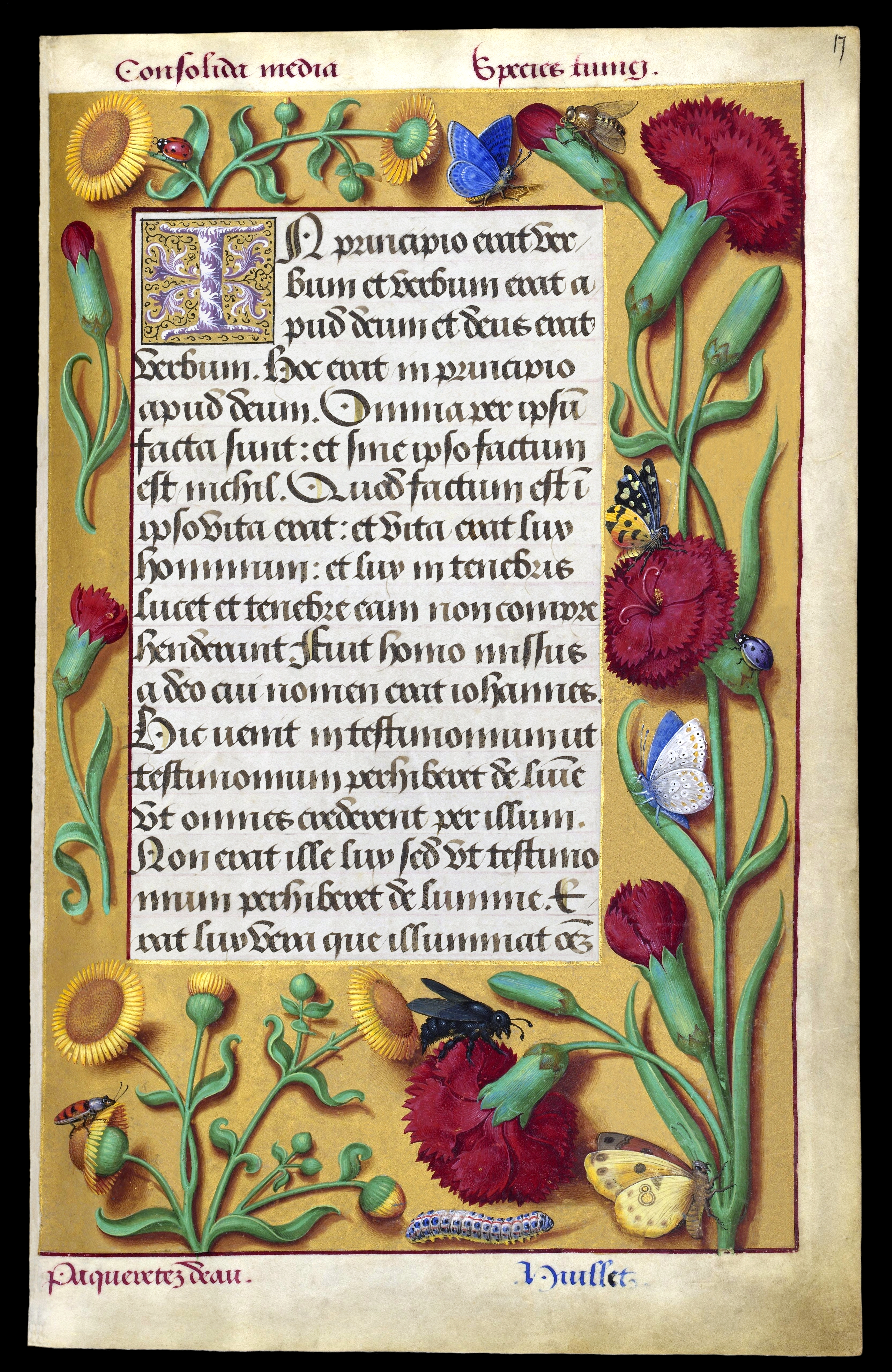 Illuminated manuscript of the Grandes Heures of Anne of Brittany Queen of France (1477-1514). The text is the Last Gospel in latin, by John the Evangelist: "In principio erat Verbum, et Verbum erat apud Deum, et Deus erat Verbum. Hoc erat in principio apud Deum. Omnia per ipsum facta sunt, et sine ipso factum est nihil quod factum est. In ipso vita erat, et vita erat lux hominum: et lux in tenebris lucet, et tenebrae eam non comprehenderunt. Fuit homo missus a Deo, cui nomen erat Joannes. Hic venit in testimonium, ut testimonium perhiberet de lumine, ut omnes crederent per illum. Non erat ille lux, sed ut testimonium perhiberet de lumine. Erat lux vera quae illuminat om(nem hominem etc...)". Bible (King James) translation: In the beginning was the Word, and the Word was with God, and the Word was God.The same was in the beginning with God. All things were made by him; and without him was not any thing made that was made. In him was life; and the life was the light of men. And the light shineth in darkness; and the darkness comprehended it not. There was a man sent from God, whose name was John. The same came for a witness, to bear witness of the Light, that all men through him might believe. He was not that Light, but was sent to bear witness of that Light. That was the true Light (etc...).